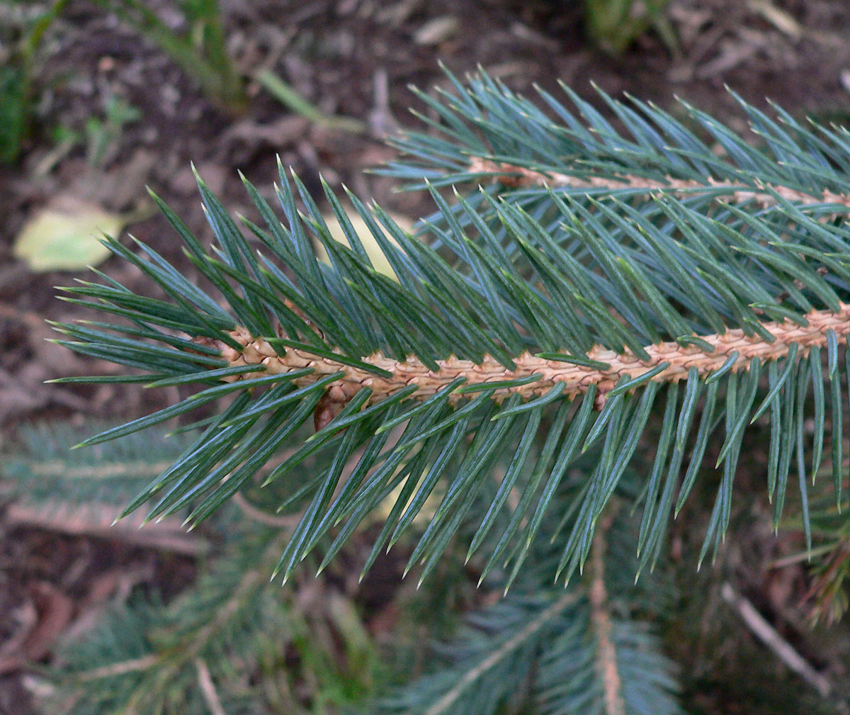 Picea chihuahuana at the San Francisco Botanical Garden